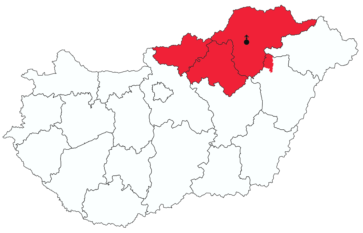 The Map of the Apostolic Eparchy of Miskolc. The original area of the exarchate got extended in March 2011. Elevatet from Exarchate to Eparchy in 2015.